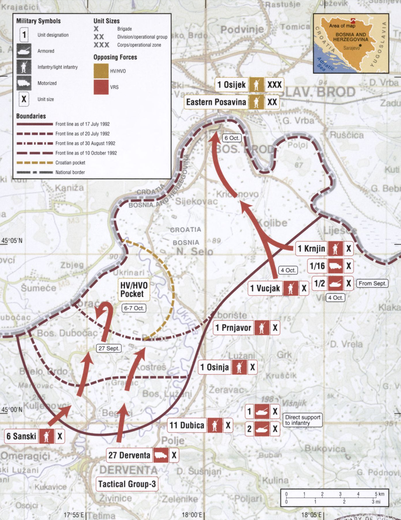 Map of the Bosanski Brod are in the Posavski Corridor (Operation Corridor 92 of the Army of the Republika Srpska) in July-October 1992. Balkan Battlegrounds Map 12